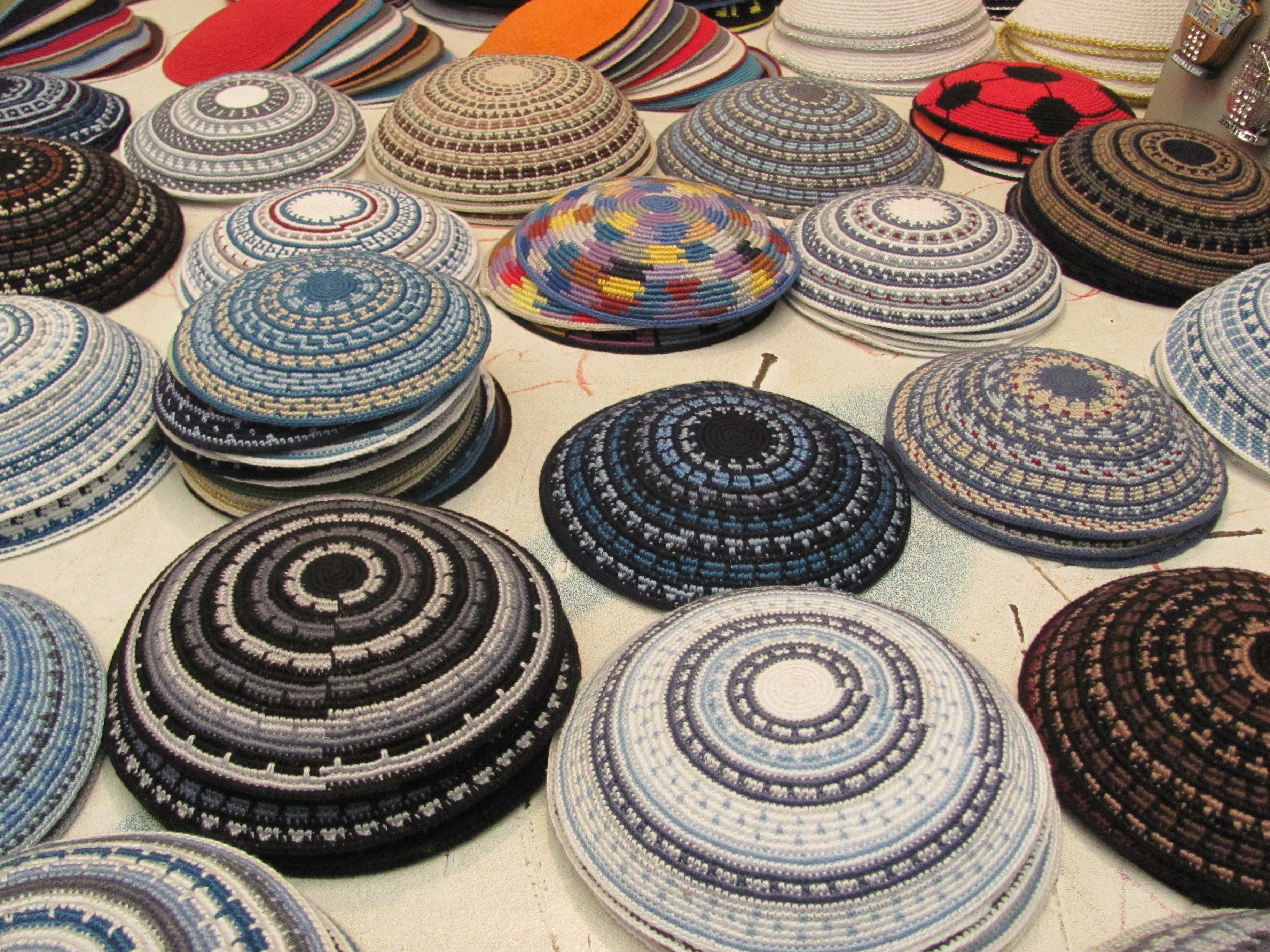 Handmade Yarmulkes at a stand in the Old City of Jerusalem